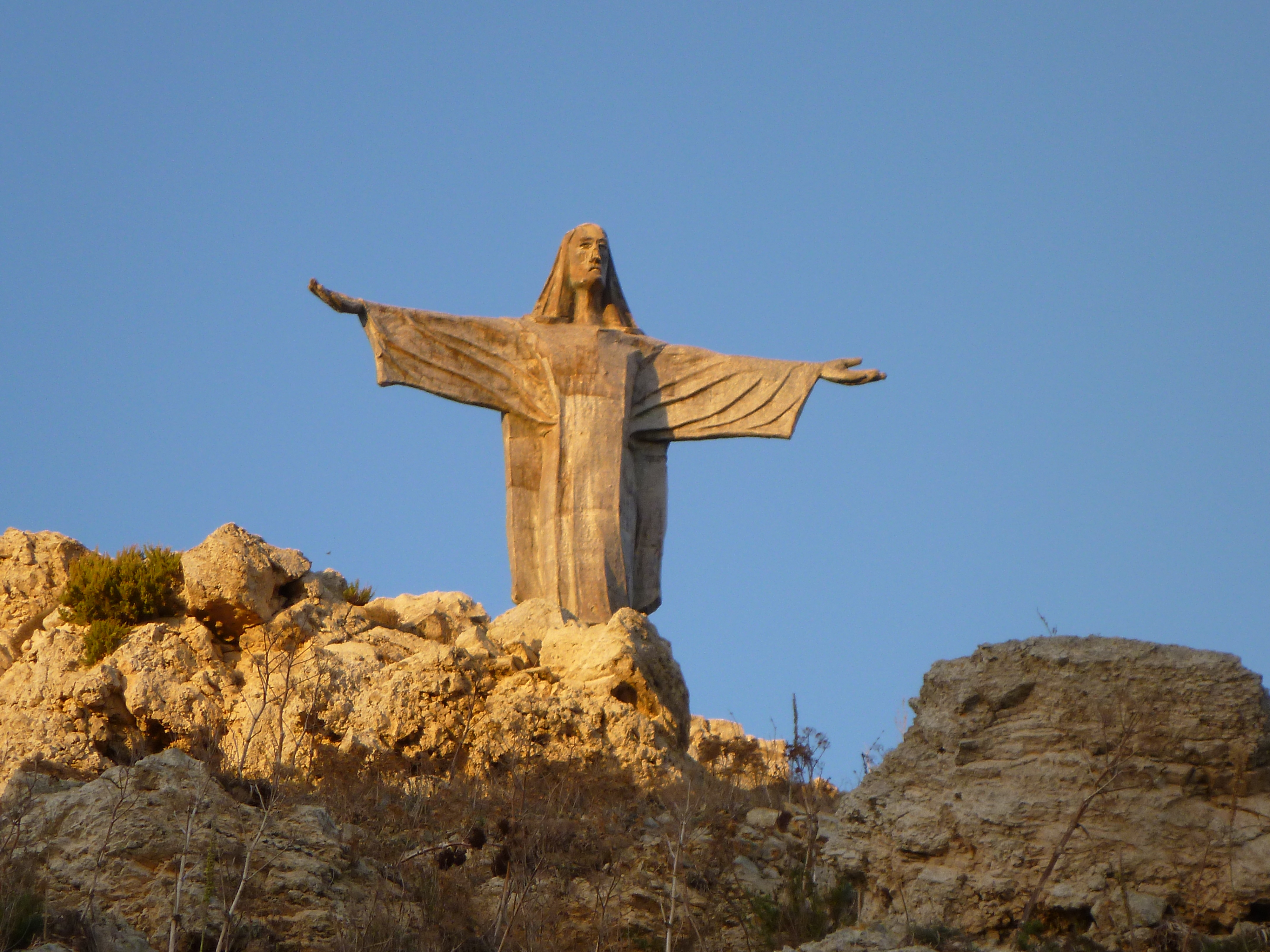 Tas-Salvatur a 12 meter high figure of Jesus von Nazaret on the hill tal-merżuq close to Marsalforn